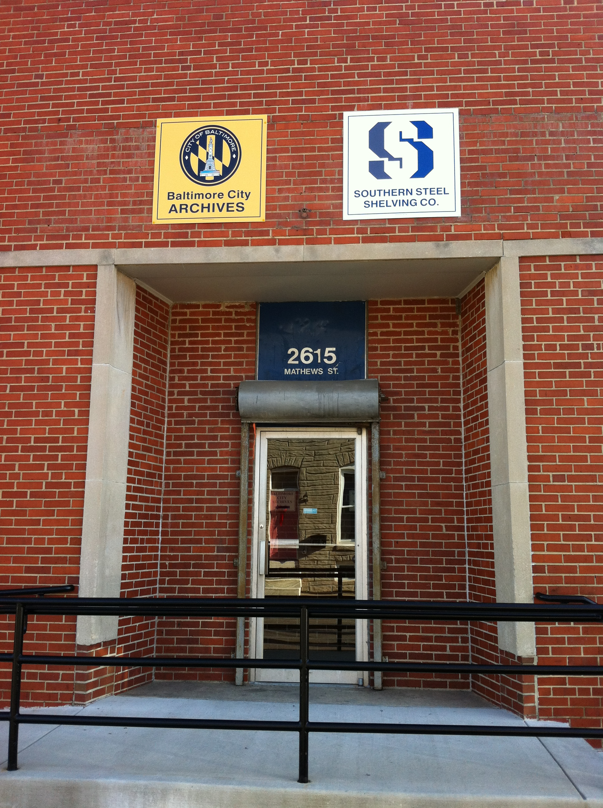 This is the main entrance to the Baltimore City Archives